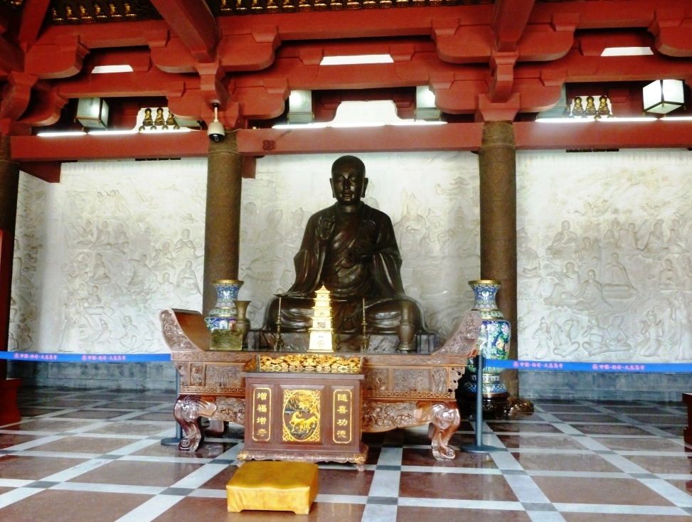 Photo of statue representing Xuanzang in the Wild Goose Pagoda, Xi'an, where he translated many Buddhist scriptures after returning from India.